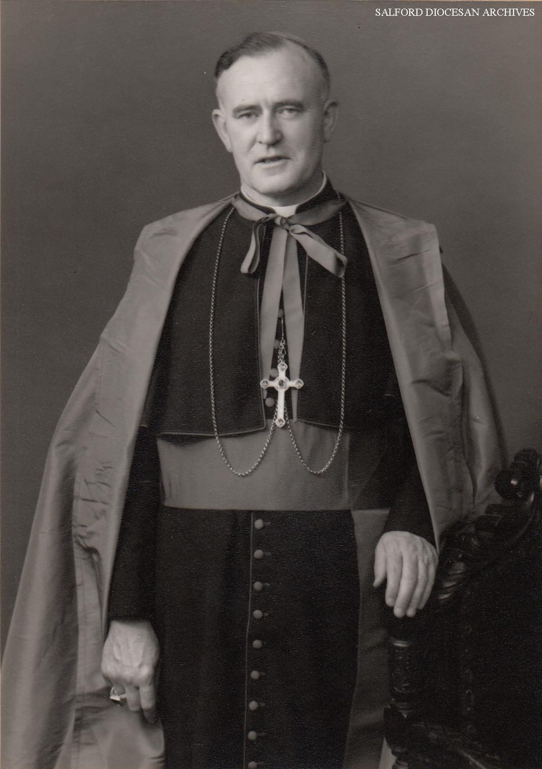 Auxiliary Roman Catholic Bishop of Salford Geoffrey Burke (1913-1999)